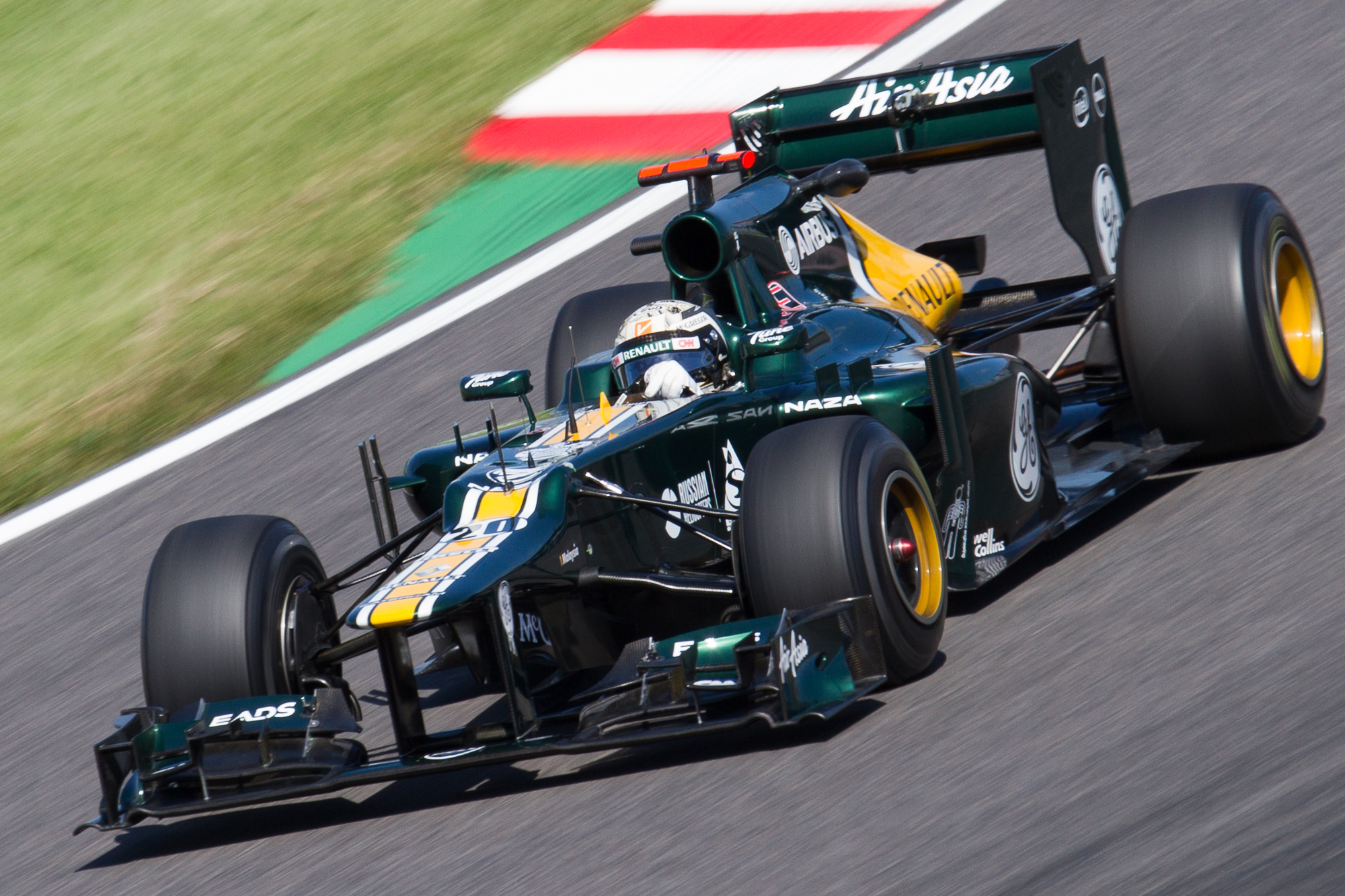 Formula One 2012 Rd.15 Japanese GP: Giedo van der Garde (Caterham) during the first practice session on Friday.